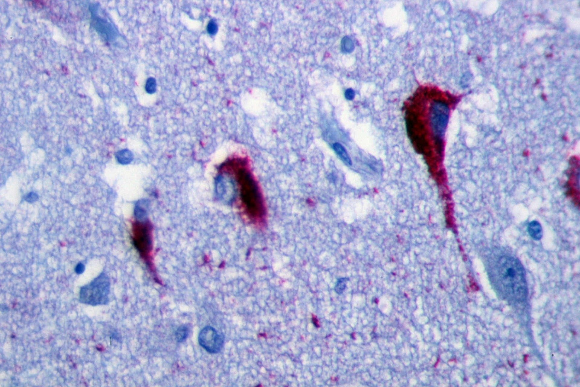 Neurofibrillary tangles in the Hippocampus of an old person with Alzheimer-related pathology.